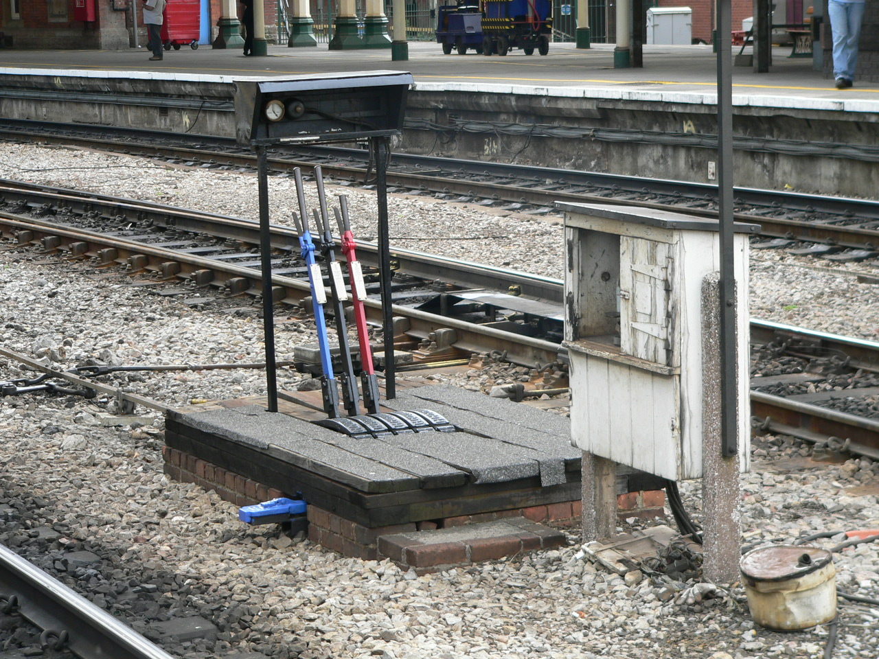 Ground frame at Bristol Temple Meads station. I presume they control which of the two centre lines, which you can see start to diverge on the extreme let of the picutre, a train uses.